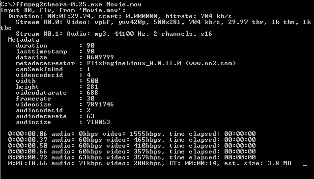 ffmpeg2theora command-line tool converting a video